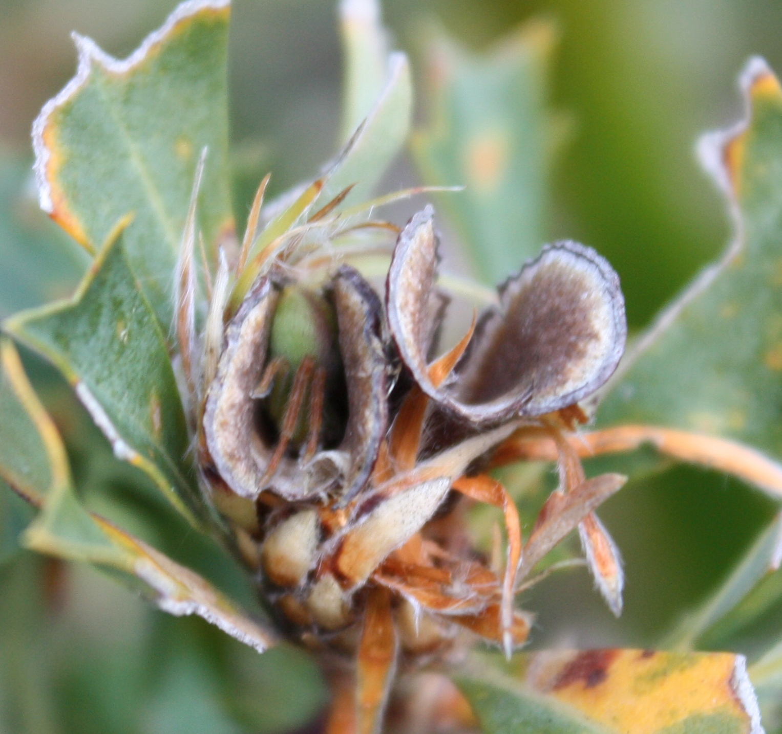 An infructescence of Banksia sessilis with two follicles. A bug is hiding in one of them. Photo taken in Bold Park, Perth, Western Australia